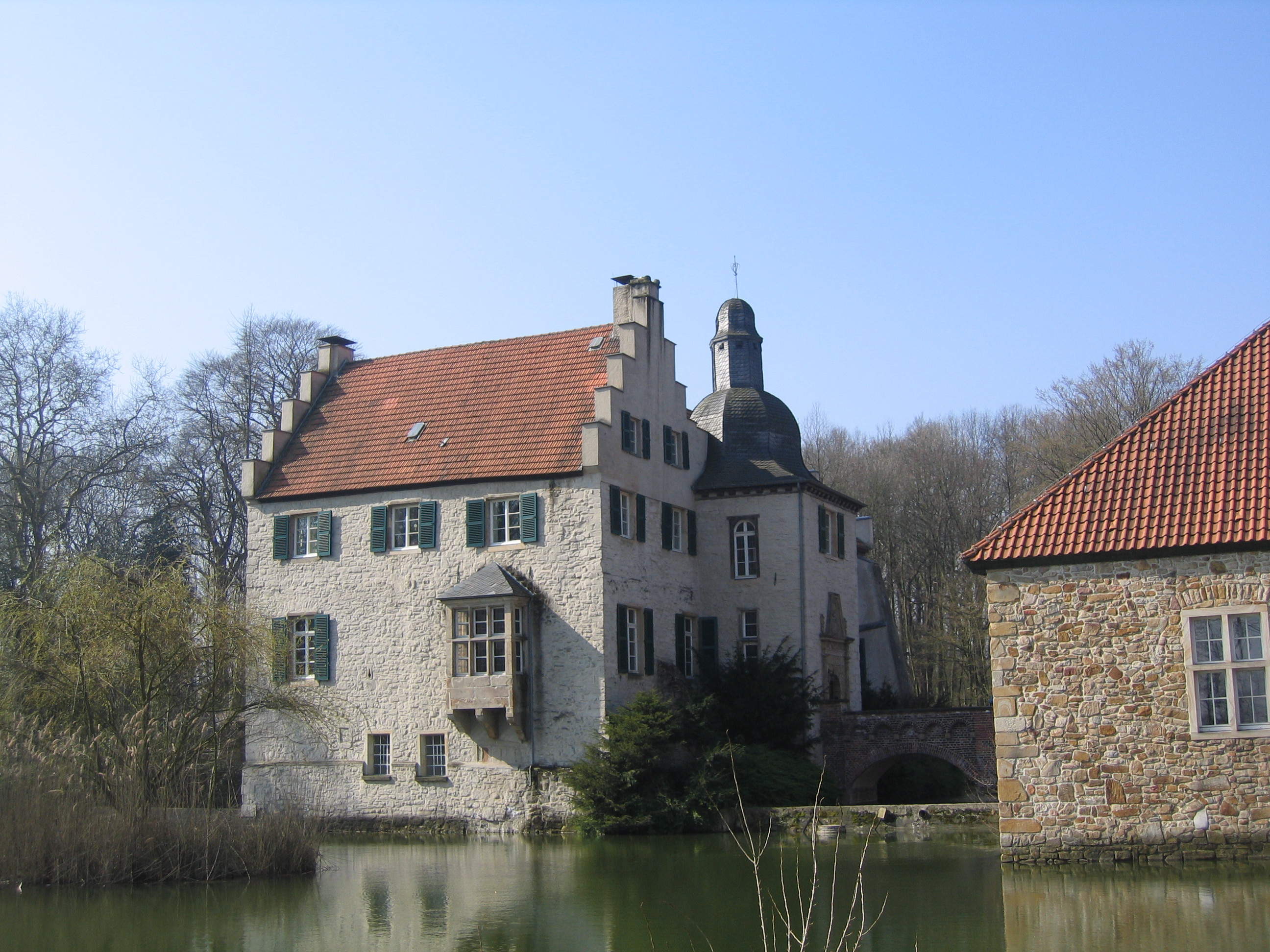 Water castle house Dellwig